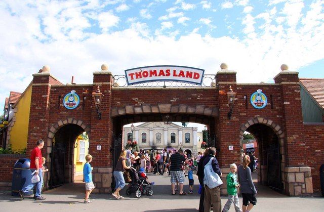 Thomas Land at Drayton Manor Park